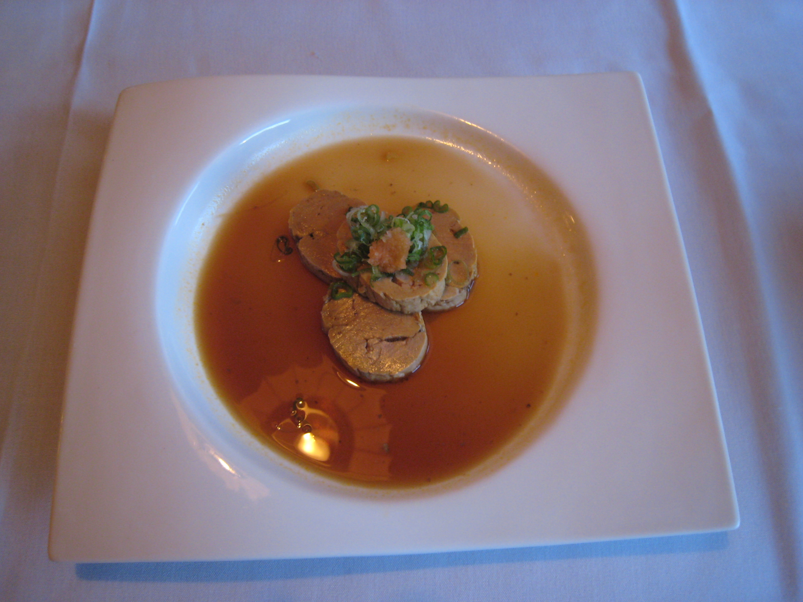 Ankimo or monkfish liver